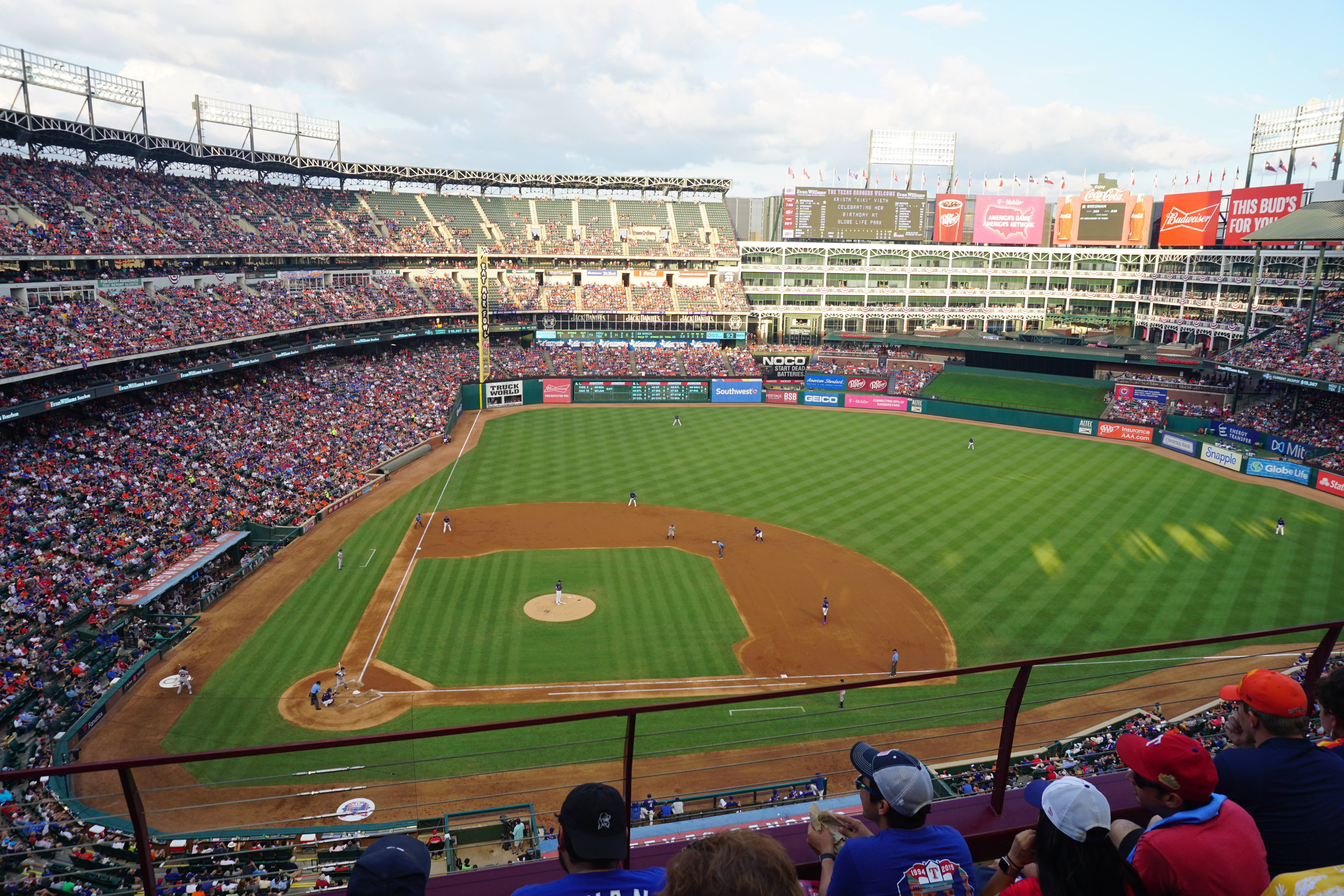 In-game action during the Houston Astros vs. Texas Rangers game at Globe Life Park in Arlington, Texas (United States). Houston won 7–6 in 11 innings.